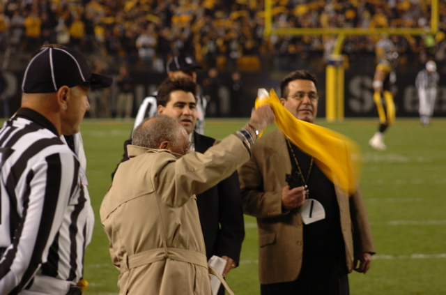 Steelers announcer Myron Cope waving his Terrible Towel - October 31, 2005